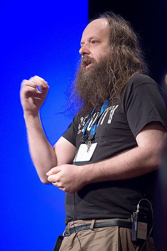 Alan Cox on EuroOSCon 2005. / Alan Cox during his Tuesday Keynote. From the 2005 European Open Source Convention held October 17-20 2005 in Amsterdam and presented by O'Reilly Media, Inc. Please give credit as "James Duncan Davidson/O'Reilly Media".